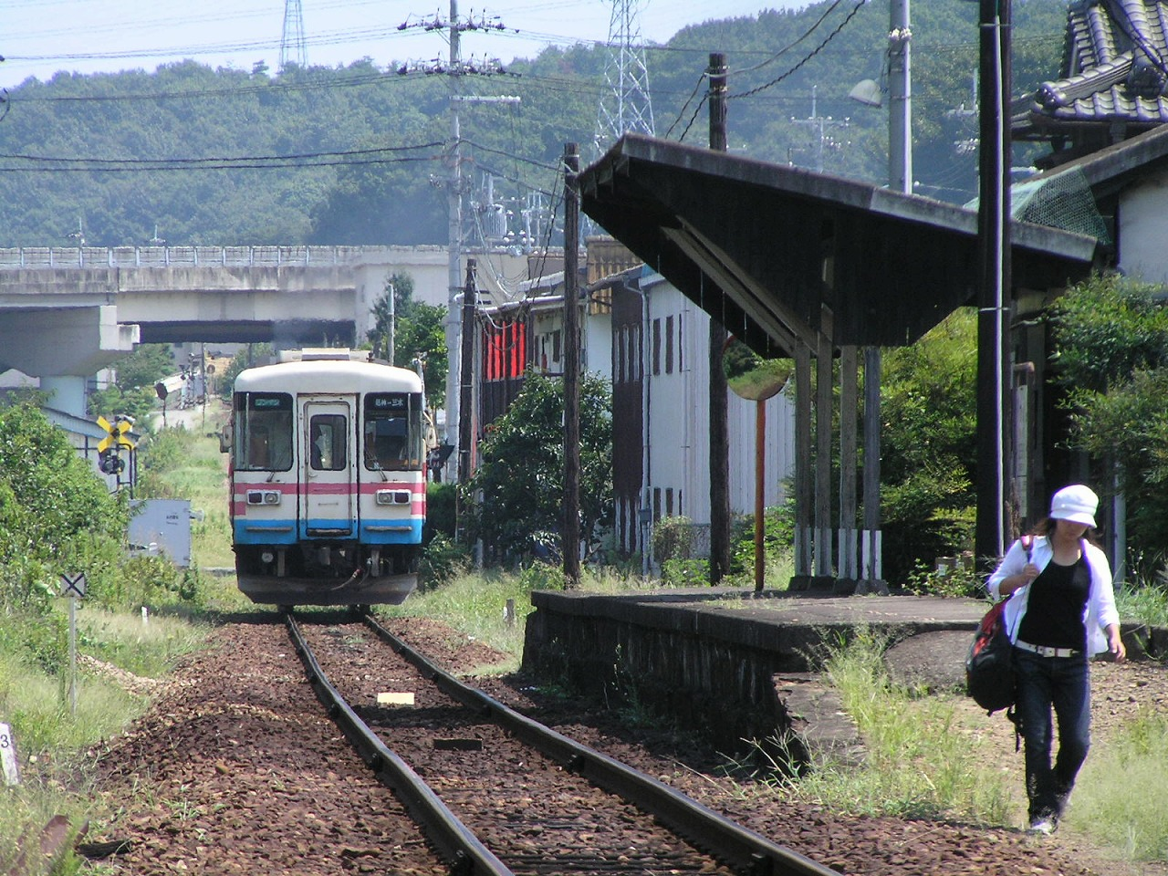 Train of Miki Railway bound for Miki departing Bessho Station at 12:05